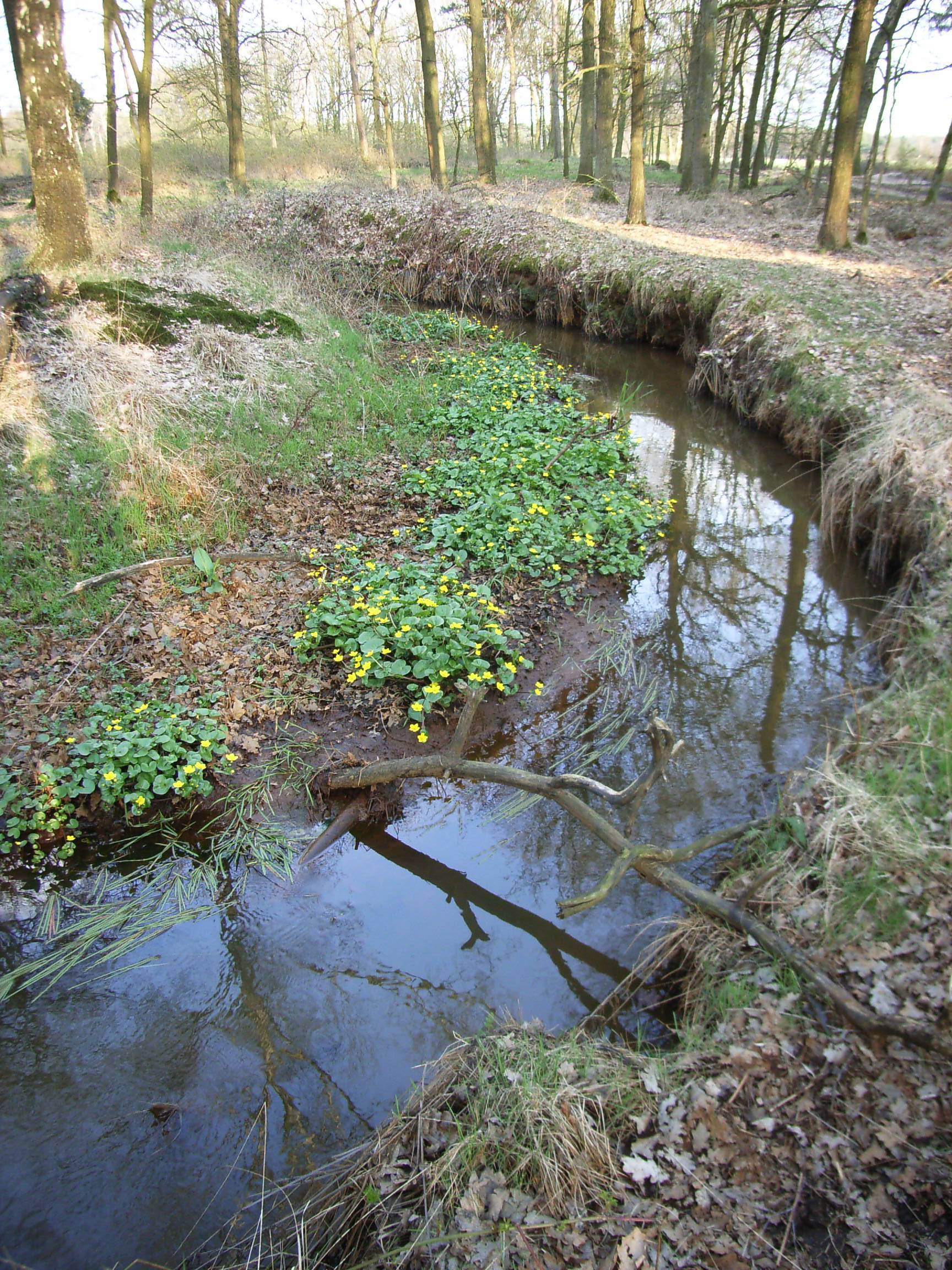 The river Esperloop near Bakel (Noord-Brabant)